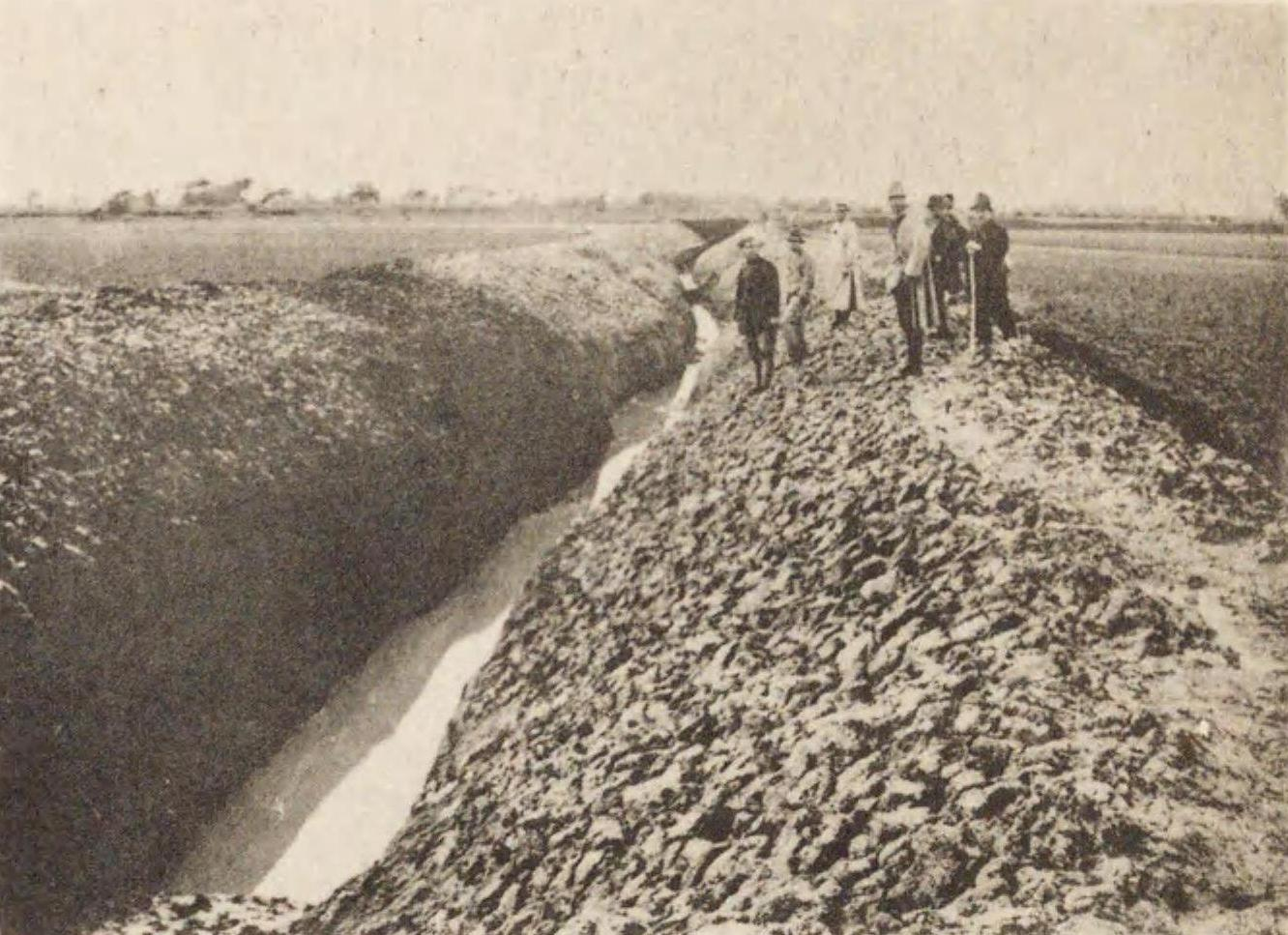 Flume at Wangpaoshan, constructed by Koreans' efforts.